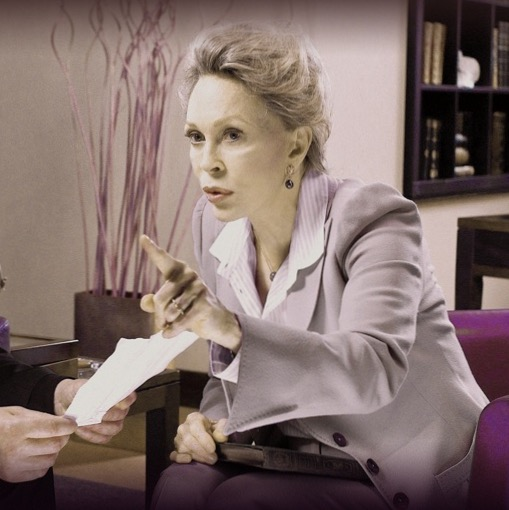 Actress Faye Dunaway on the set of "Balladyna" (2009).